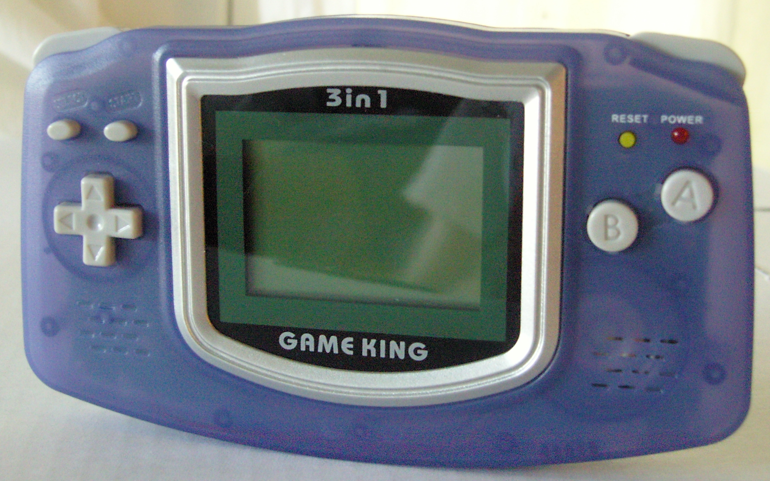 The original GameKing (GM-218) ; GameKing I Created by JML.